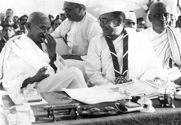 Gandhi at the Indian National Congress annual meeting in Haripura in 1938. Congress President Subhas Chandra Bose is wearing the ribbon, seated behind him is Dr. Rajendra Prasad, and to the right of Bose is Sardar Vallabhbhai Patel.